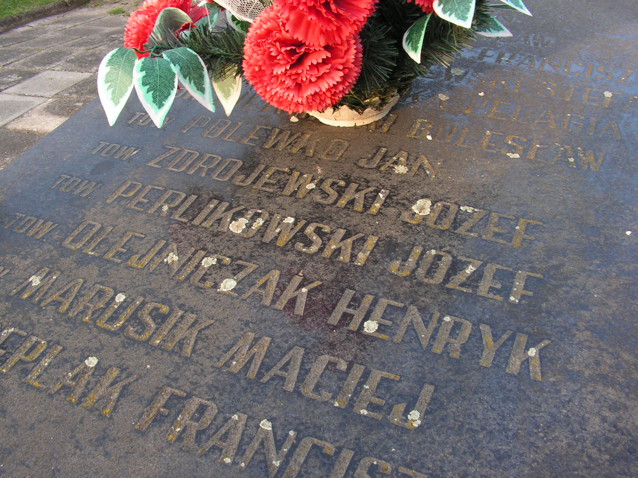 Plaque on symbolic grave of Włocławek's communist on Communal Cemetery in Włocławek. On the foreground there is a name of among others Józef Perlikowski.